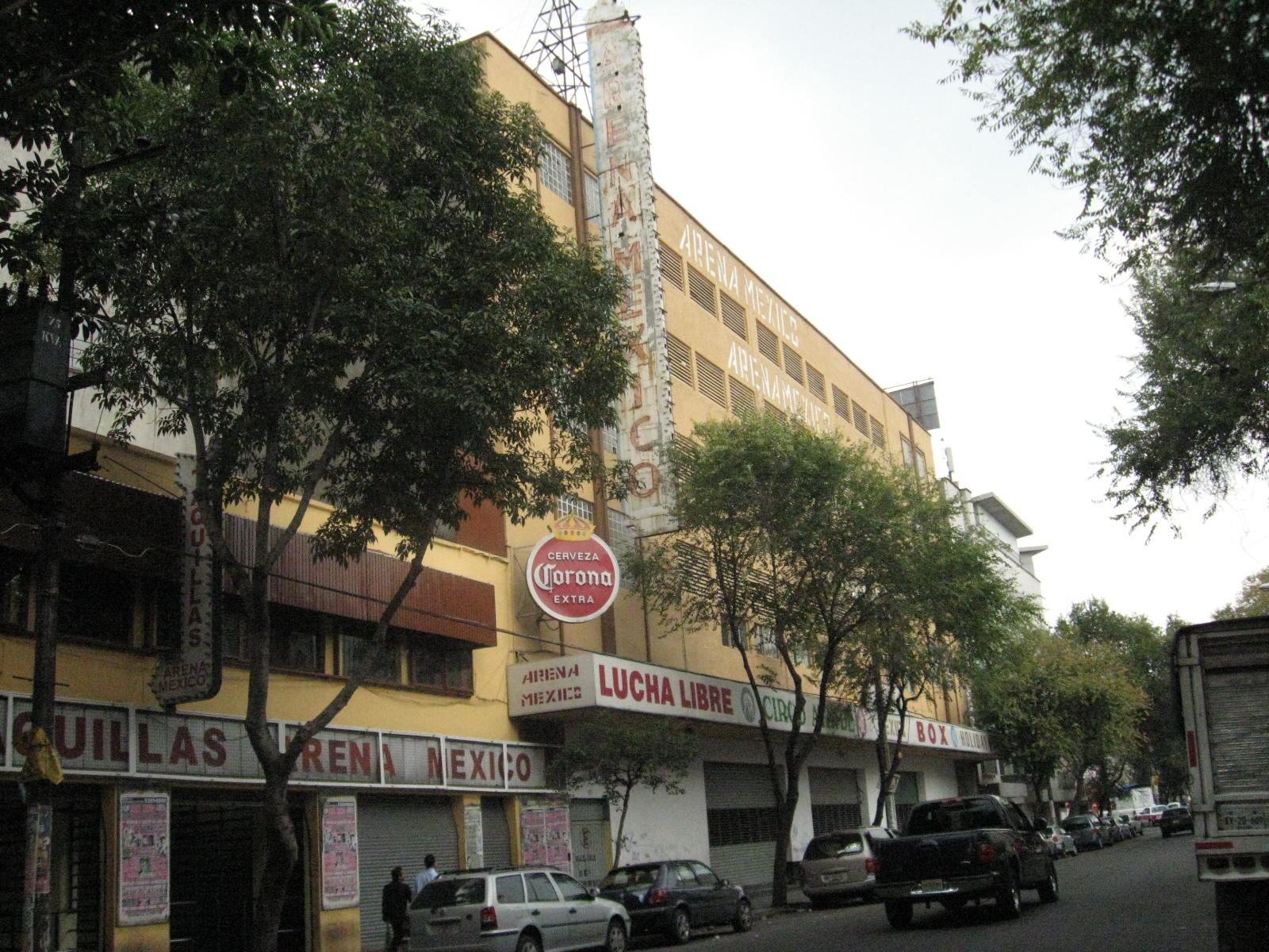 Arena Mexico, noted for its staging of lucha libre fights on Dr Lavista Stree in Colonia Doctores in Mexico City